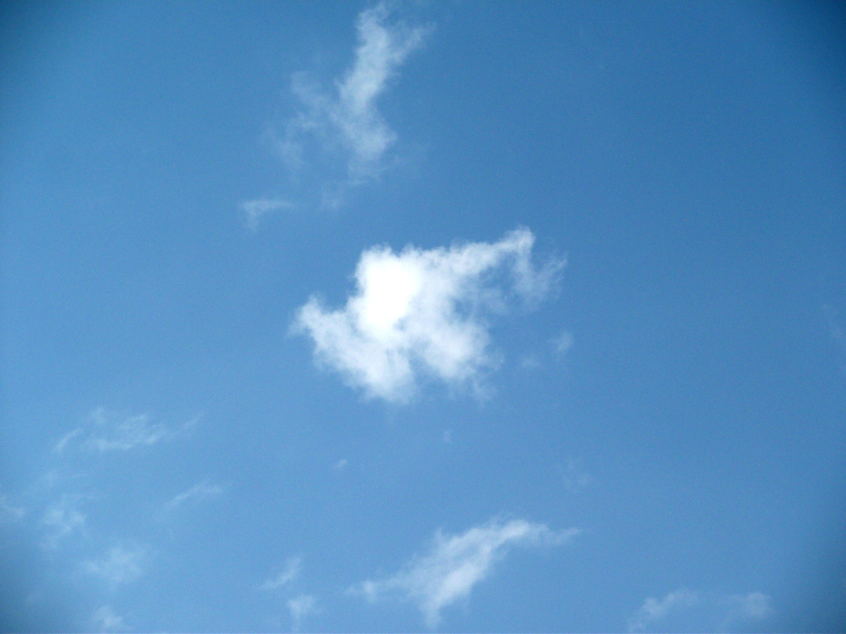 Cumulus Fractus